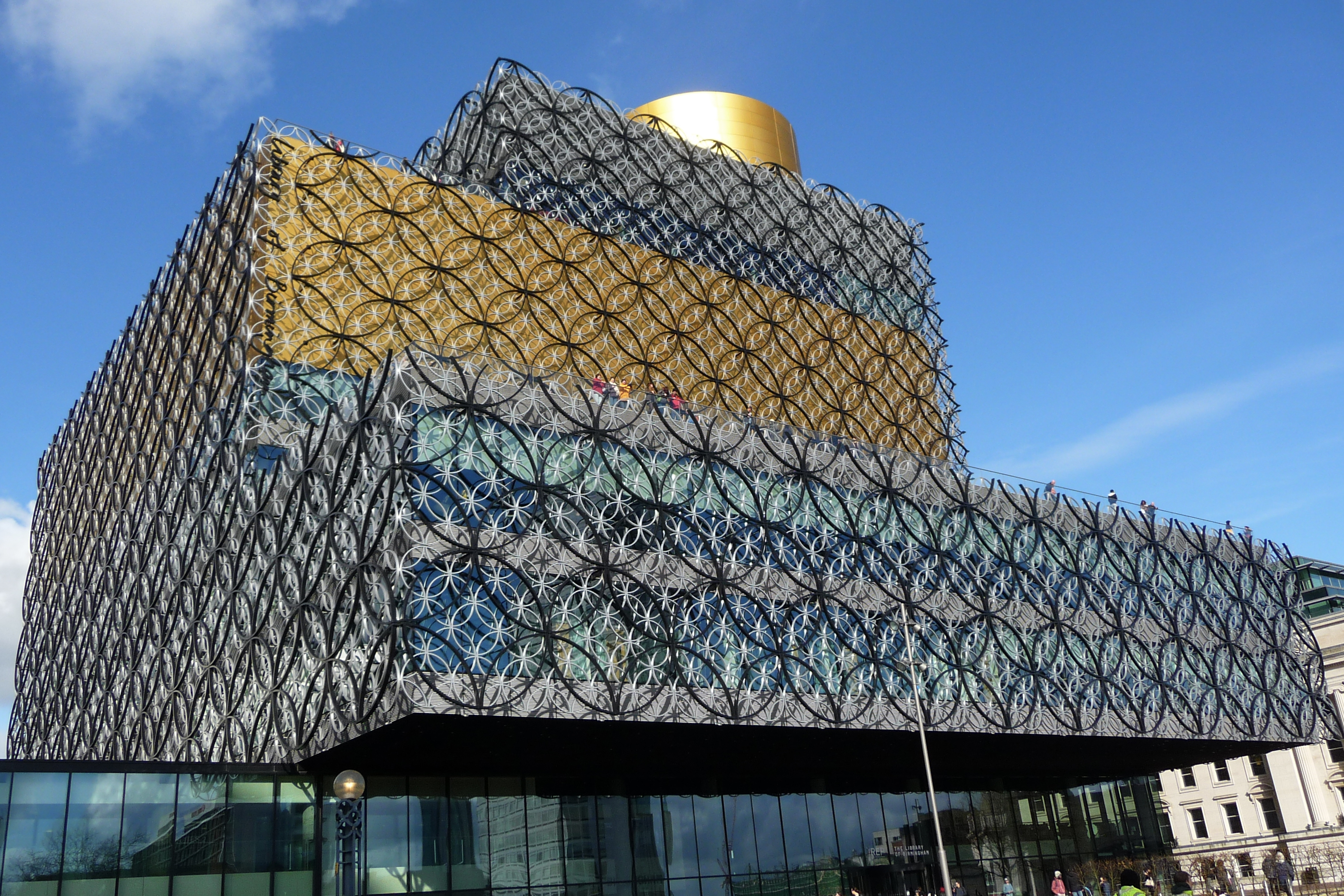 Derivative work of File:The New Library Birmingham (12724739394).jpg - crop to fit montage